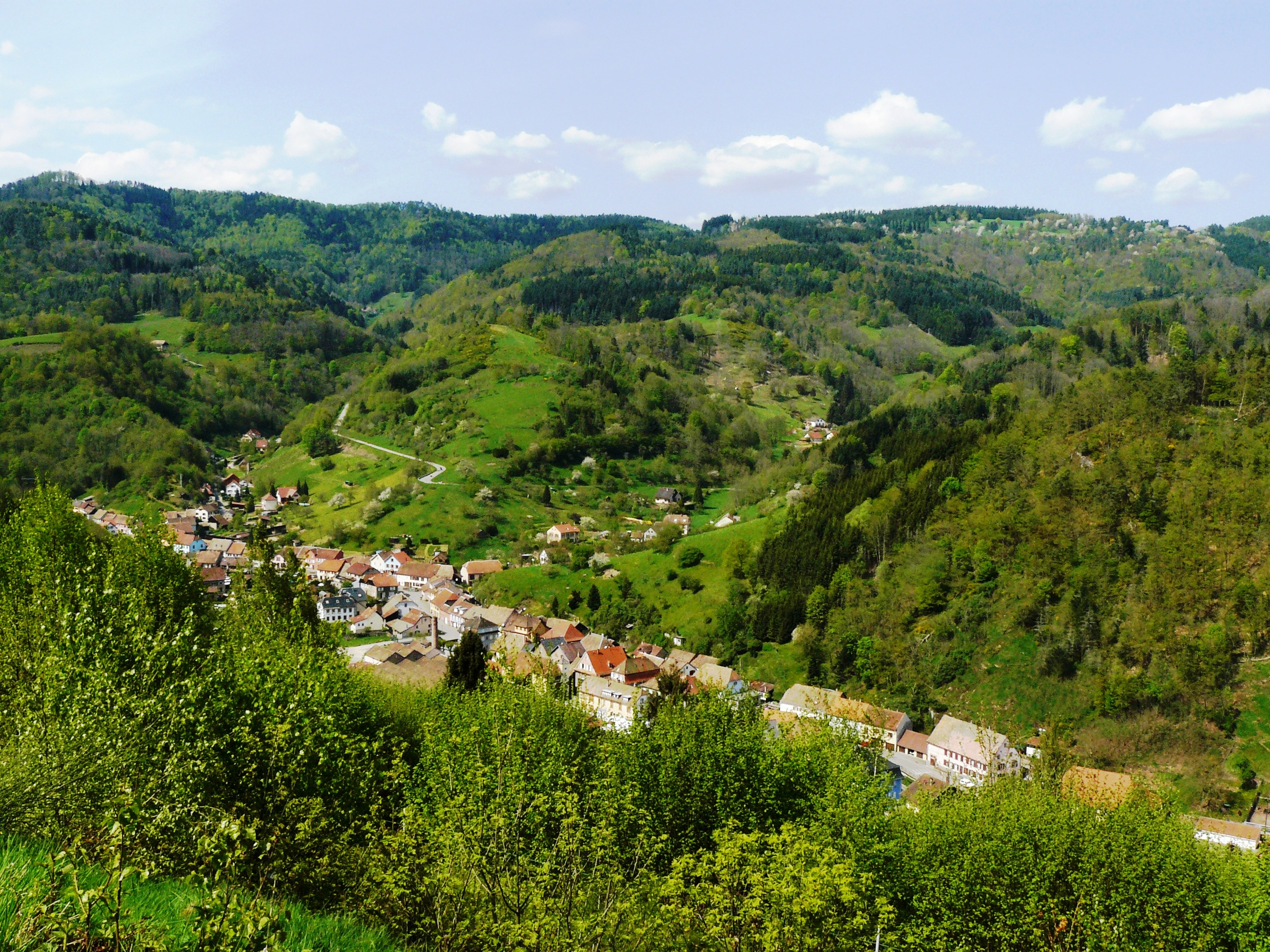 Vue sur Rombach-le-Franc et Pierreusegoutte